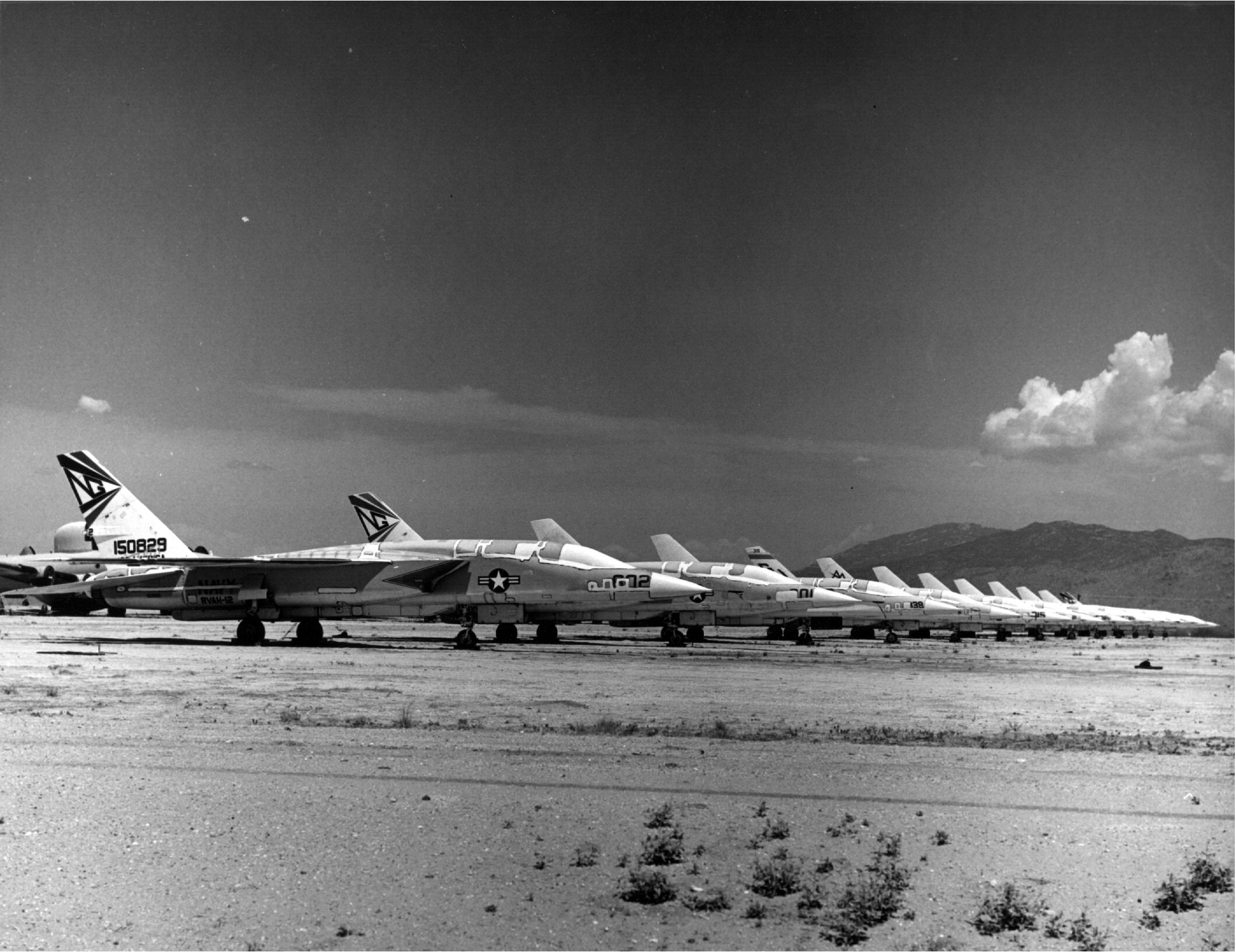 At least thirteen retired U.S. Navy North American RA-5C Vigilante at the Military Aircraft Storage and Disposal Center (MASDC) at Davis-Monthan Air Force Base, Tucson, Arizona (USA), in the 1970s. The RA-5Cs were of the first production batch delivered in the early 1960s. The first aircraft in line, BuNo 150829, was retired as 4A0013 on 27 April 1971.